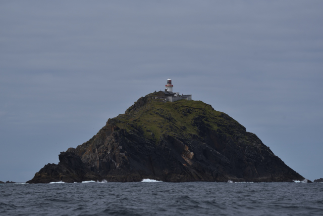 Black Rock Island - County Mayo - Ireland